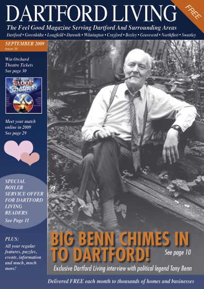 Dartford Living September 2009 Front Cover featuring Tony Benn